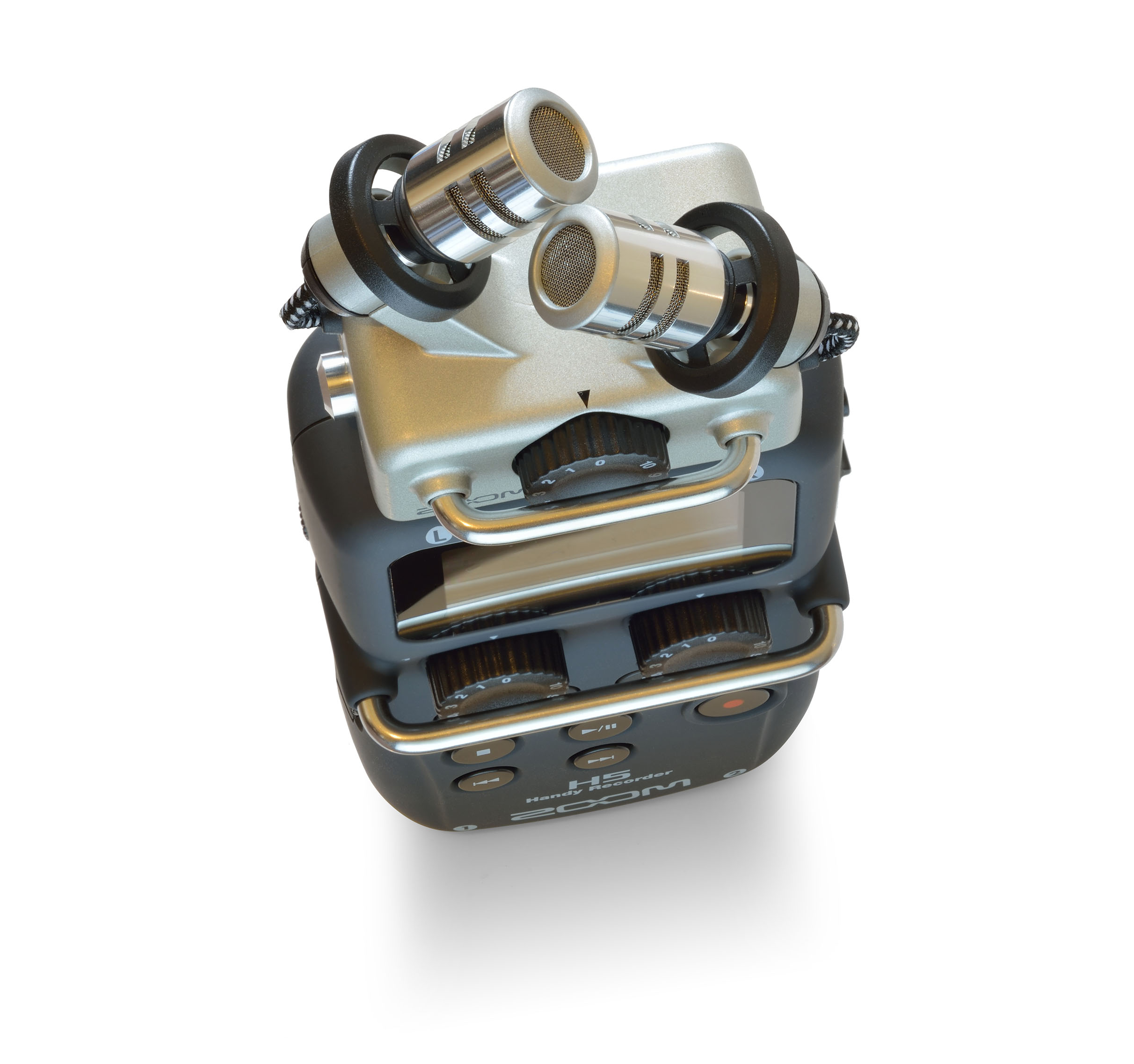 Zoom H5 Handy Recorder, zoom on an attached X/Y Microphone Capsule - model XYH-5